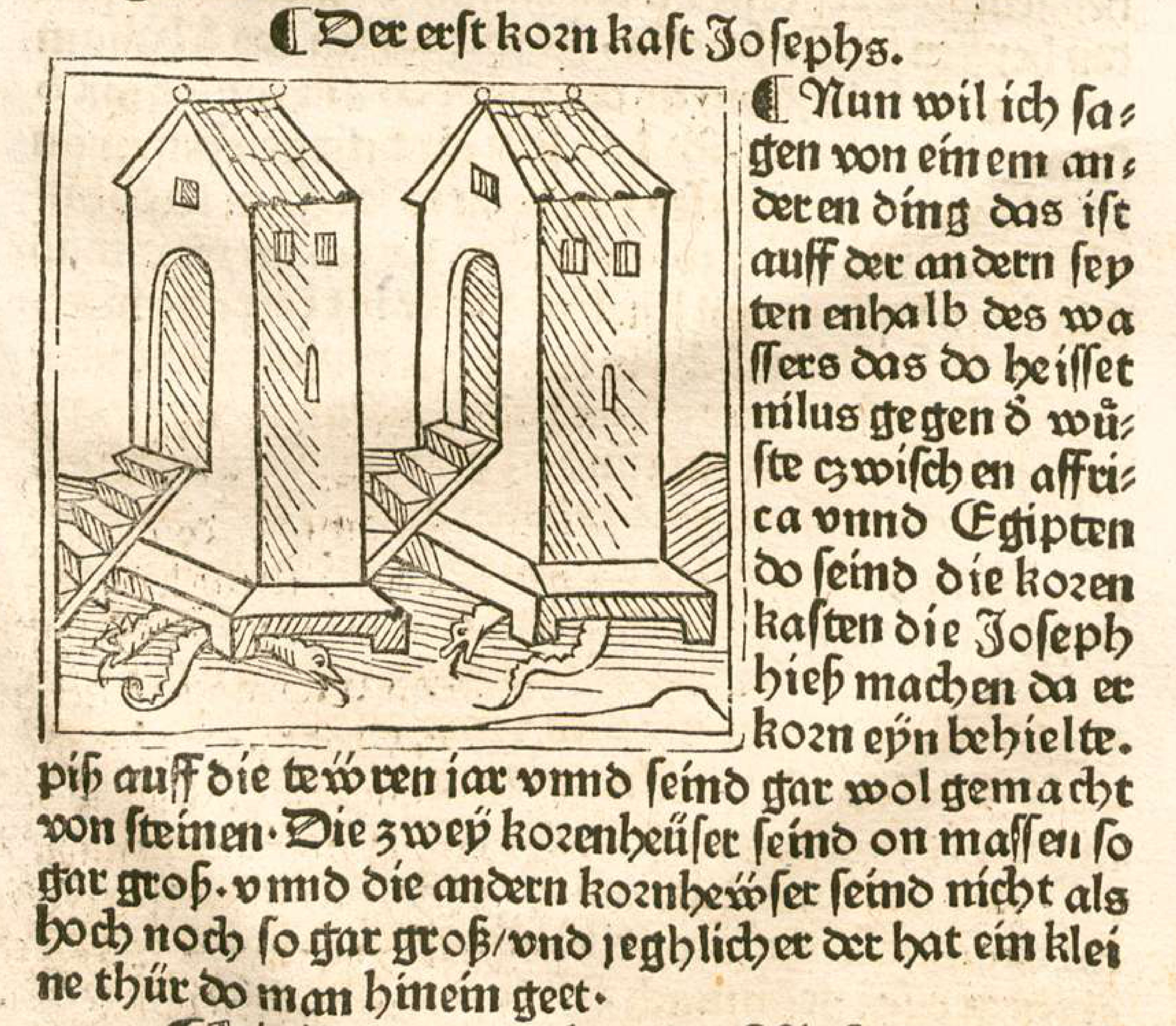 Woodcut image of Joseph's barns/granaries from the German translation of Mandeville's Travels made by Michel Vesler. The woodcuts were made by the printer Anton Sorg. The image is found on folio 18v of Mandeville, Das buch des ritters herr hannsen von monte villa (Augsburg: Anton Sorg, 1481).